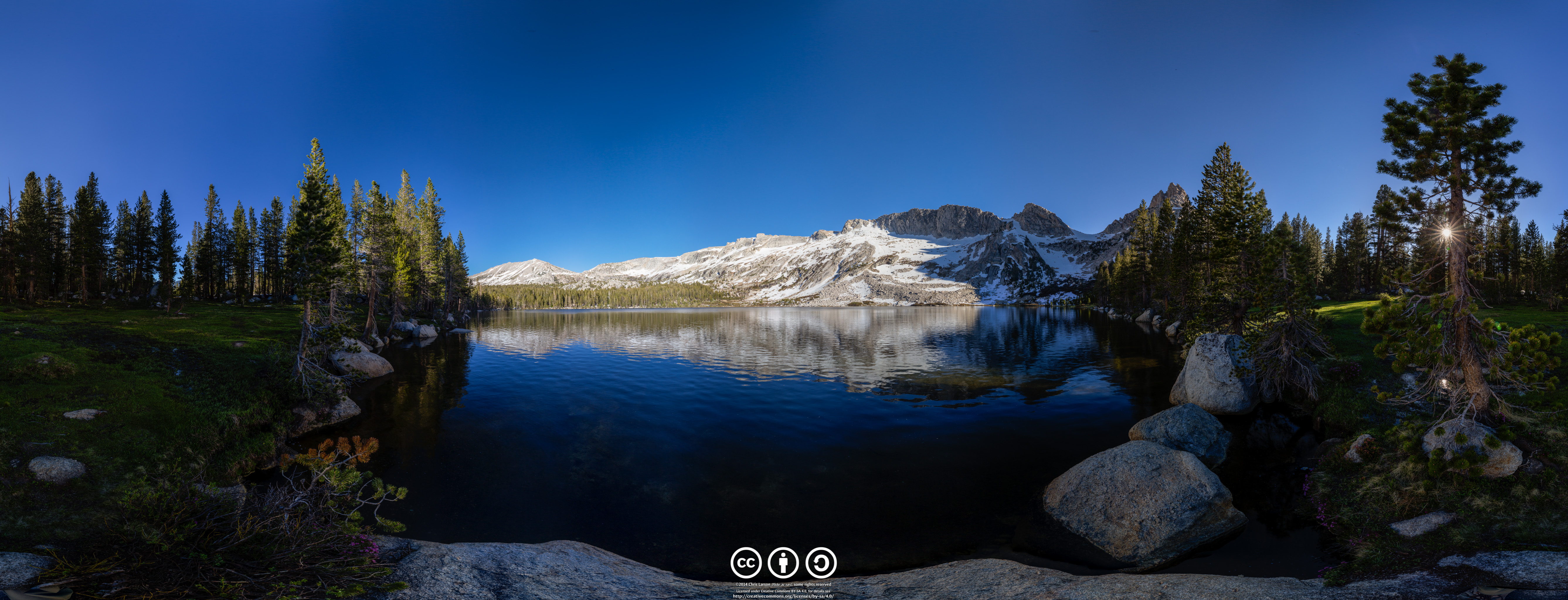 Full 360 panorama on the shore of Lower Young Lake.